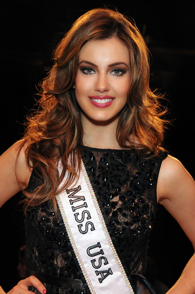 Erin Brady, Long Beach, California on January 4, 2014 - Photo by Glenn Francis of